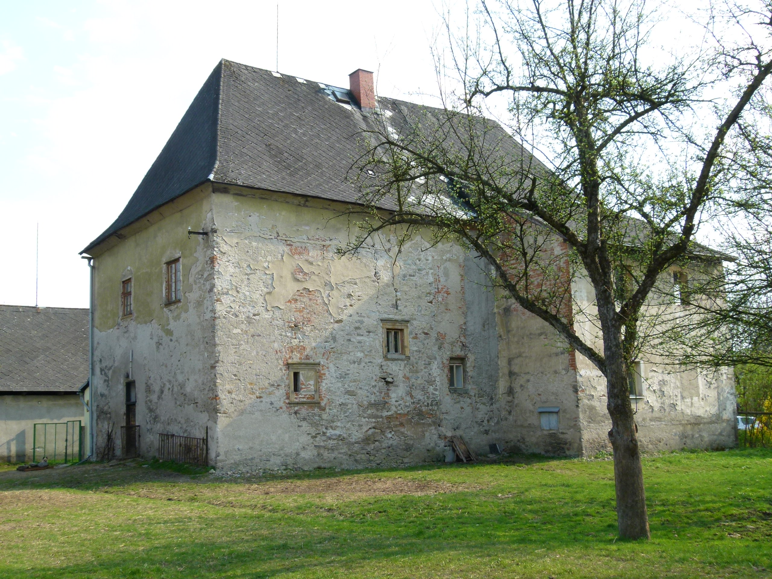 Stronghold in Bohdíkov